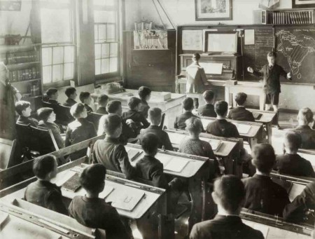 Image title:History Classes at UHS - 1930s Style Description: Students in class at the University High School, Melbourne, 1930's.